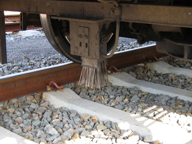 see Le Crocodile for informations